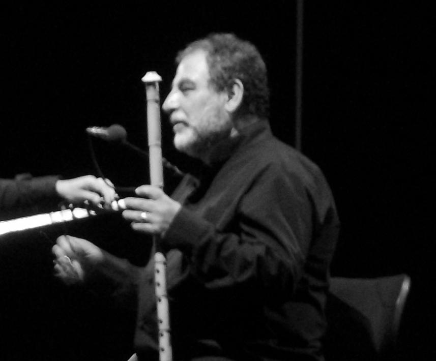 Kudsi Erguner holding a ney